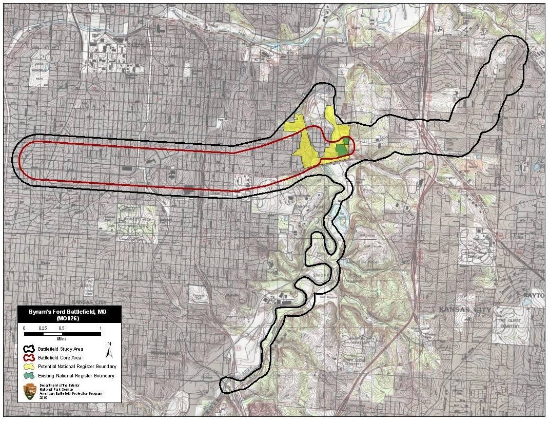 Map of battlefield core and study areas. The 1993 Study Area and Core Area did not accurately reflect the full extent of the battlefield landscape. The ABPP redrew the Study Area to include: 1) the Confederate approach from the east, 2) Confederate movements along the Big Blue River (these movements caused Union forces to eventually withdraw from the Byram's Ford area), 3) fighting to the immediate east and west of Byram's Ford, 4) the Confederate flanking movement from the north, and 5) the fighting retreat of Union forces west toward the Missouri-Kansas state line. The Core Area includes the locations of frontal assaults on Byram's Ford, the left flank attack by Confederate forces on the Union lines, and the organized fighting withdrawal from the Byram's Ford area to within a quarter mile of the Missouri-Kansas state line.